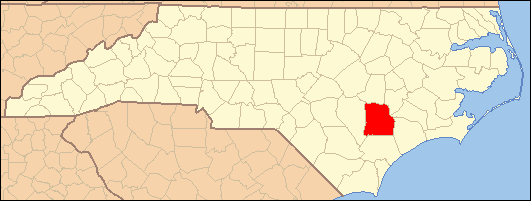 Locator Map of Duplin County, North Carolina, United States